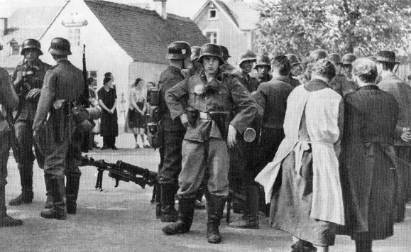 26 September 1938, Hazlov, Czechoslovakia. SS troops and Sudeten Germans pictured.